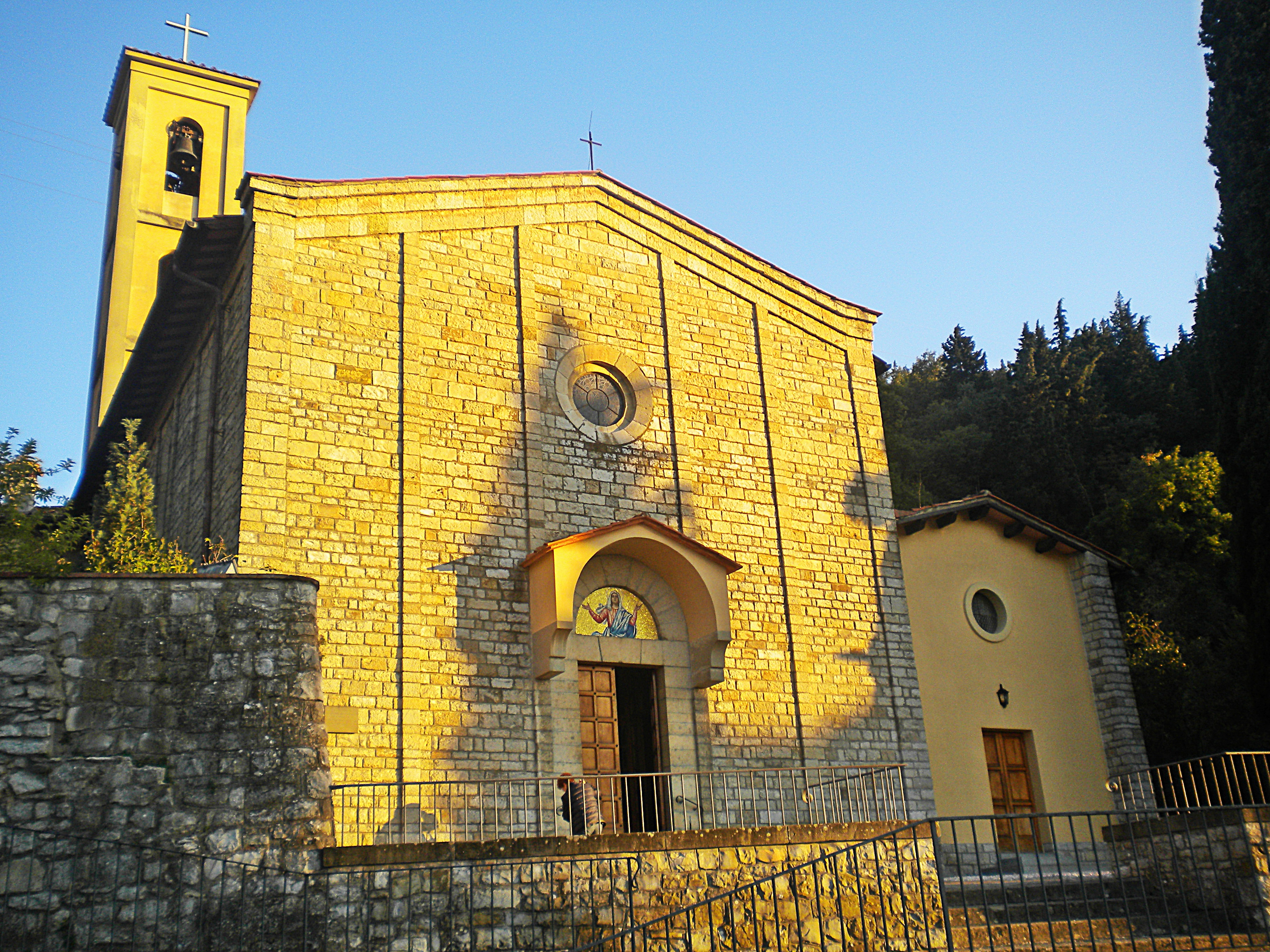 3 view